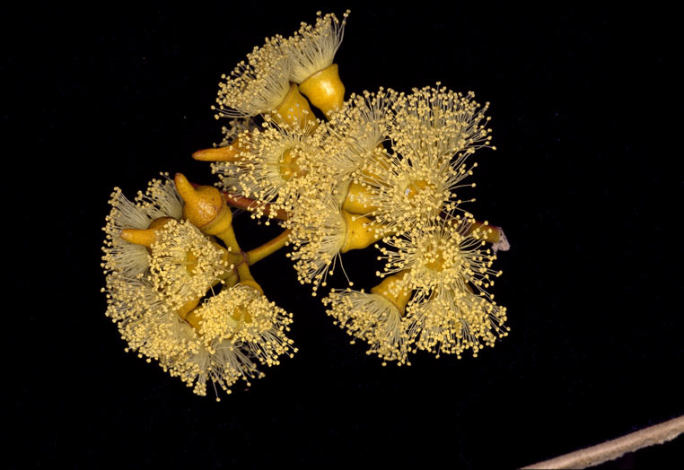 Flower buds and flowers of Eucalyptus yumbarrana, north from the Eyre Highway, towards the Yumbarra Conservation Park, South Australia